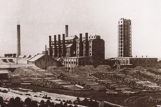 Paper factory in Toyohara(Yuzhno-Sakhalinsk Южно-Сахалинск)